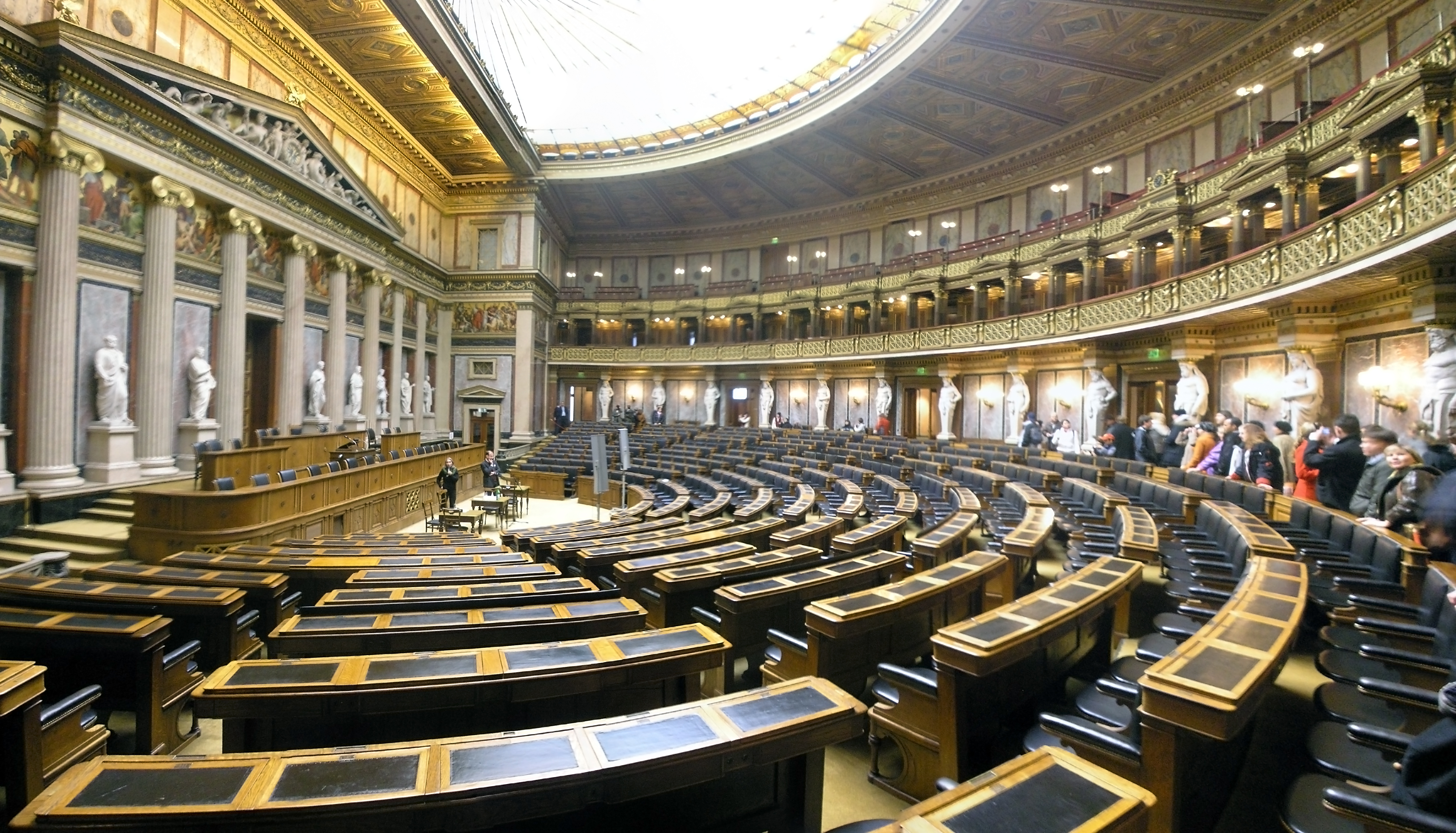 Debating Chamber of the former House of Deputies of Austria, in Vienna.